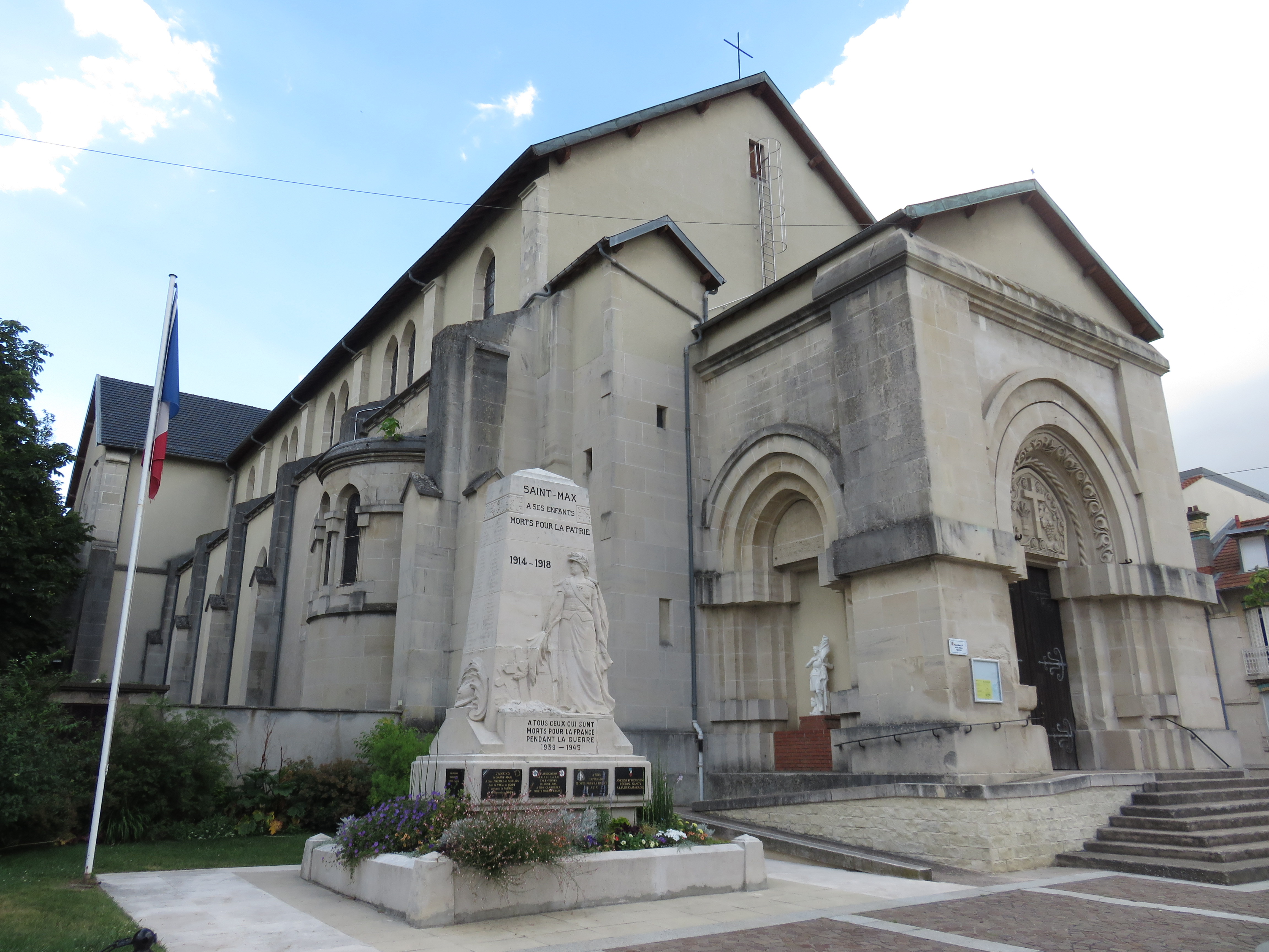 St. Livier Church in Saint-Max, France in 2018